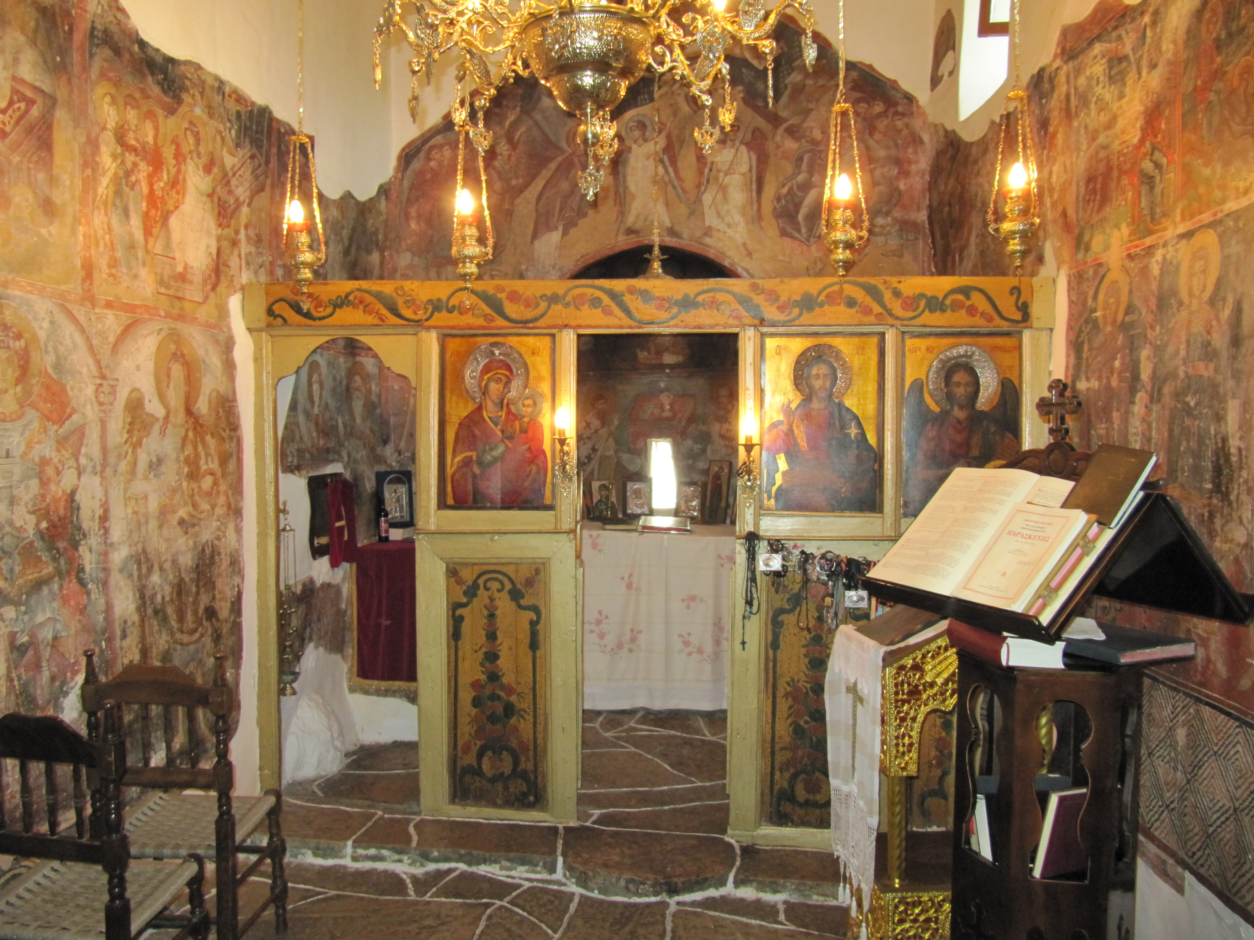 Inside the nave of the church of the Monastery of Saint Paraskevi